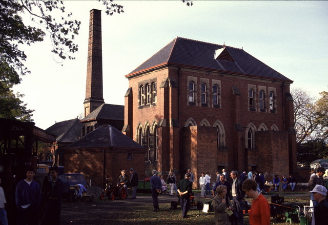 Tees Cottage Pumping Station. Also called Broken Scar although I believe that is better reserved for the site on the opposite side of the main road. This is operated by enthusiasts and contains a beam engine and a large gas engine. This was a popular open day. The brick structures on the side of the building are WWII blast walls to protect the air vessels within.